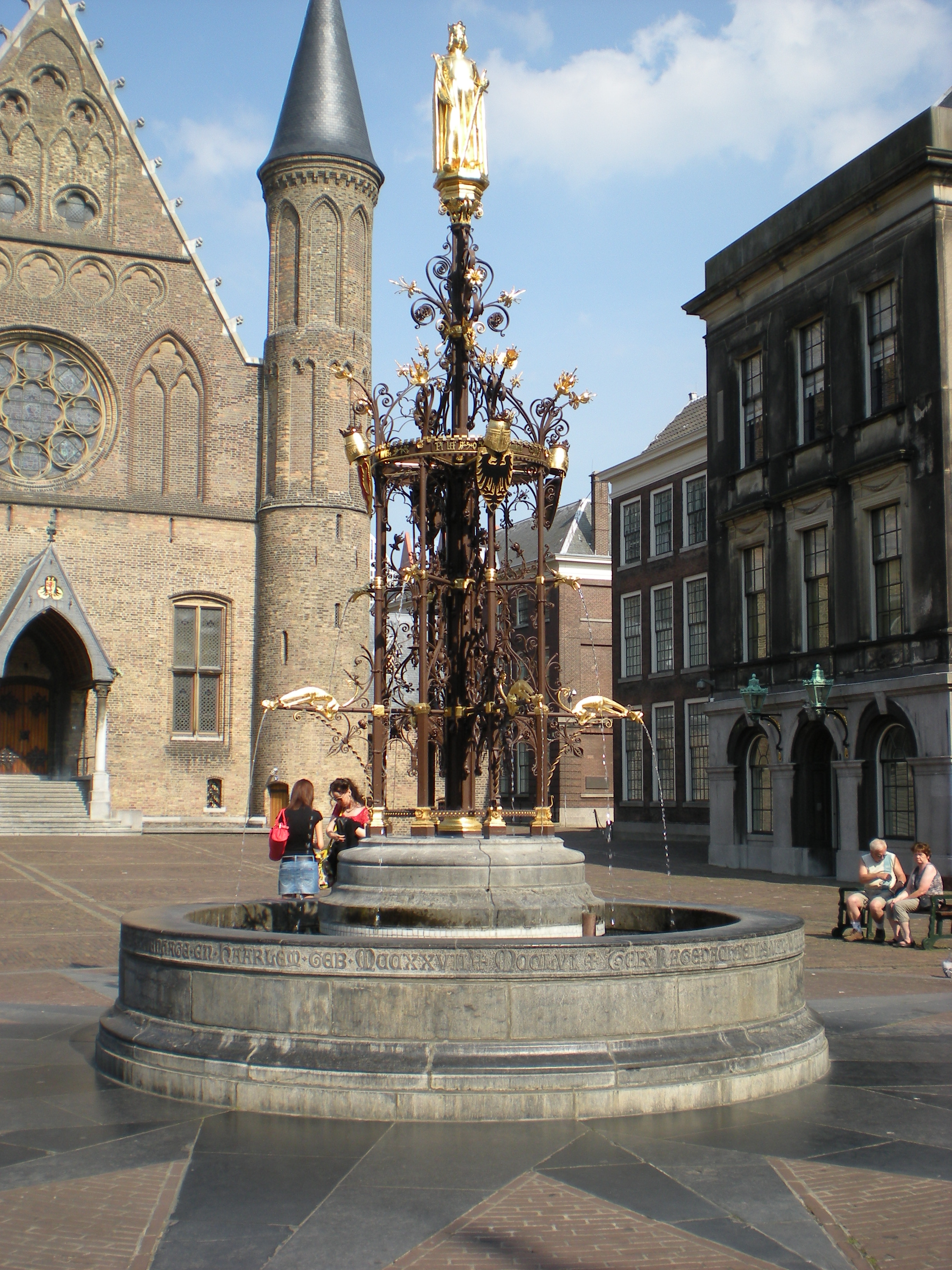 The fountain on the Binnenhof in The Hague